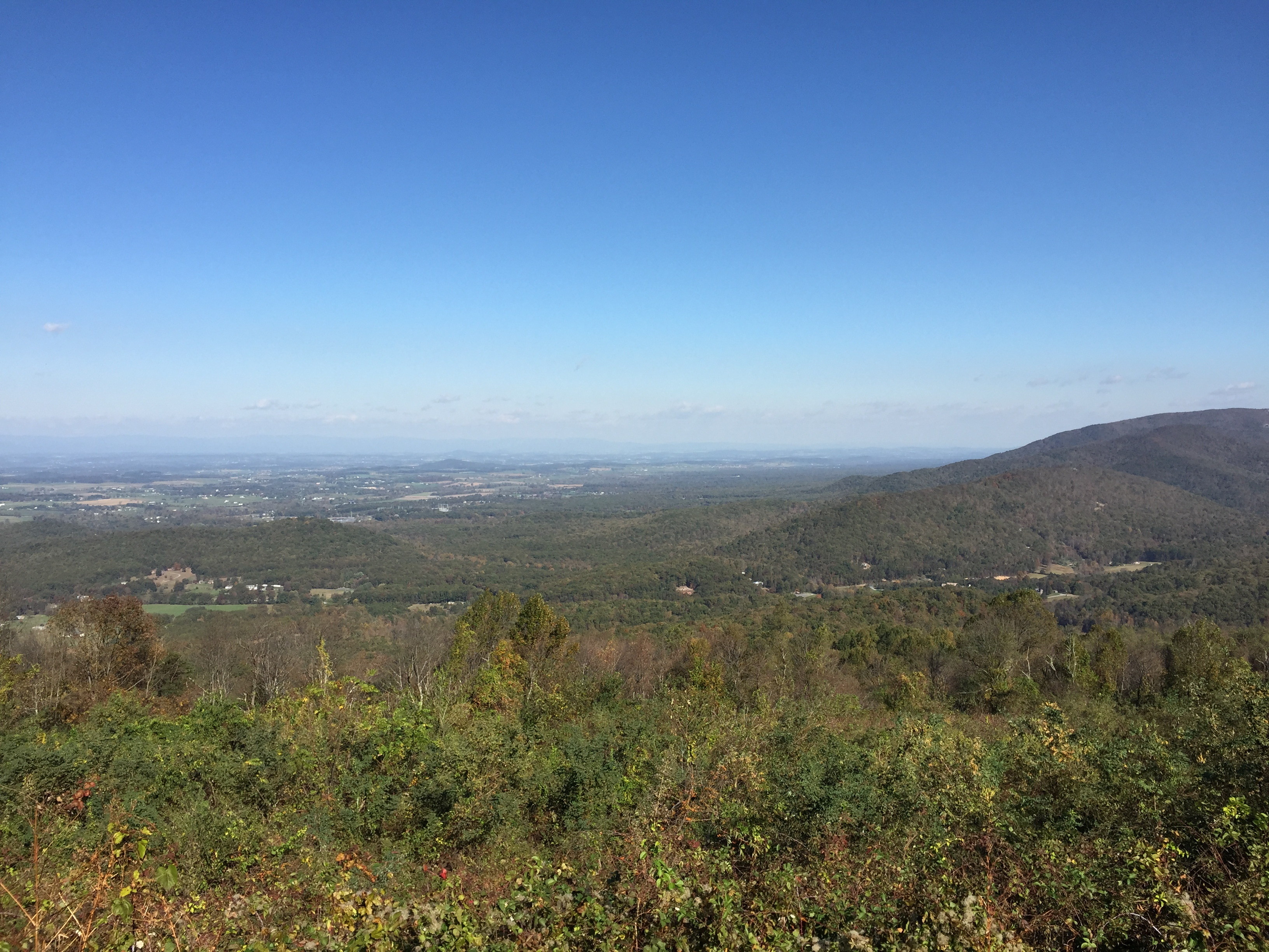 View north-northwest from the McCormick Gap Overlook along Shenandoah National Park's Skyline Drive in Augusta County, Virginia